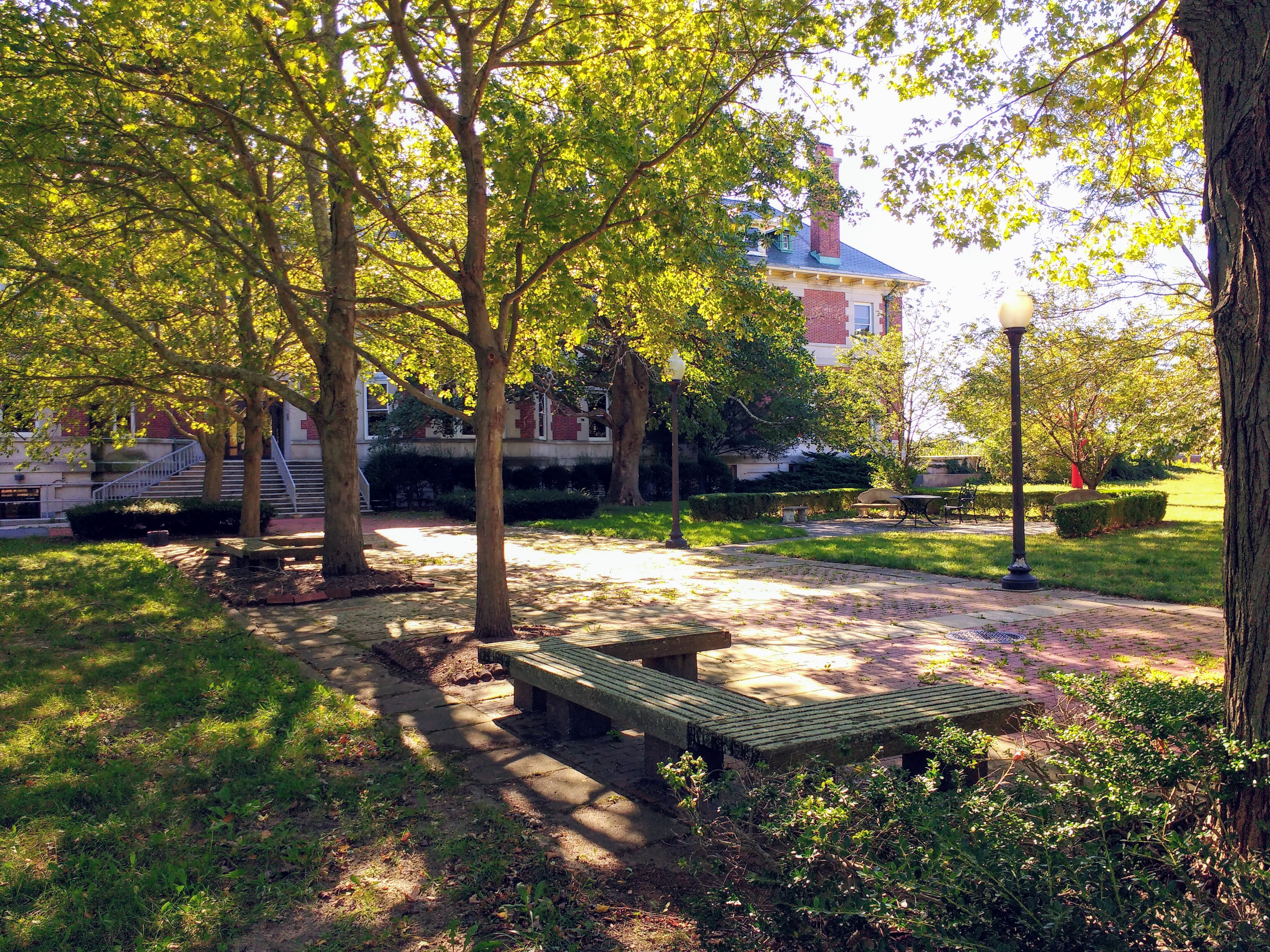 Picture Dowling College's Rudolph Campus in Oakdale, New York, USA